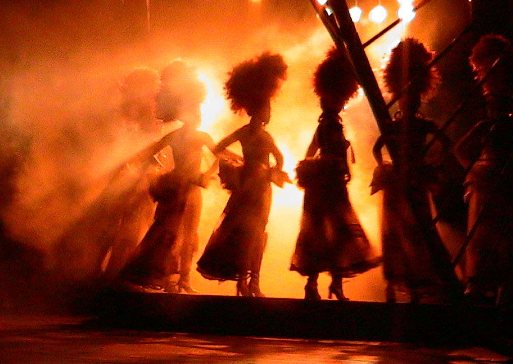 This is a photo that I took myself with a Canon digital camcorder. It shows Club Tropicana Dancers in Havana.